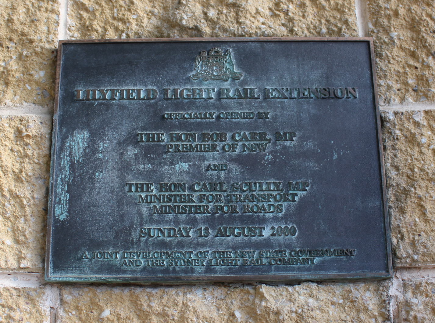 Jubilee Park Station plaque